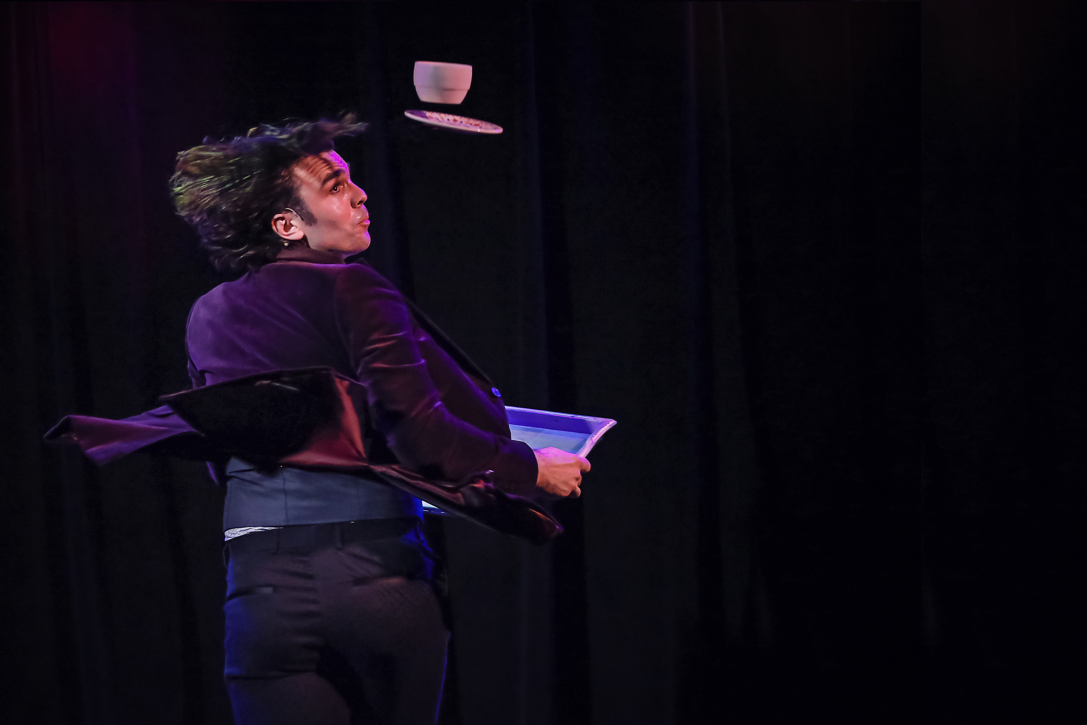 There are very few Gentleman Jugglers working in the world today. Here, Thom Wall demonstrates a trick with a teacup, saucer, and tray in the show "On the Topic of Juggling" at the Emerald Room in St Louis, Missouri.